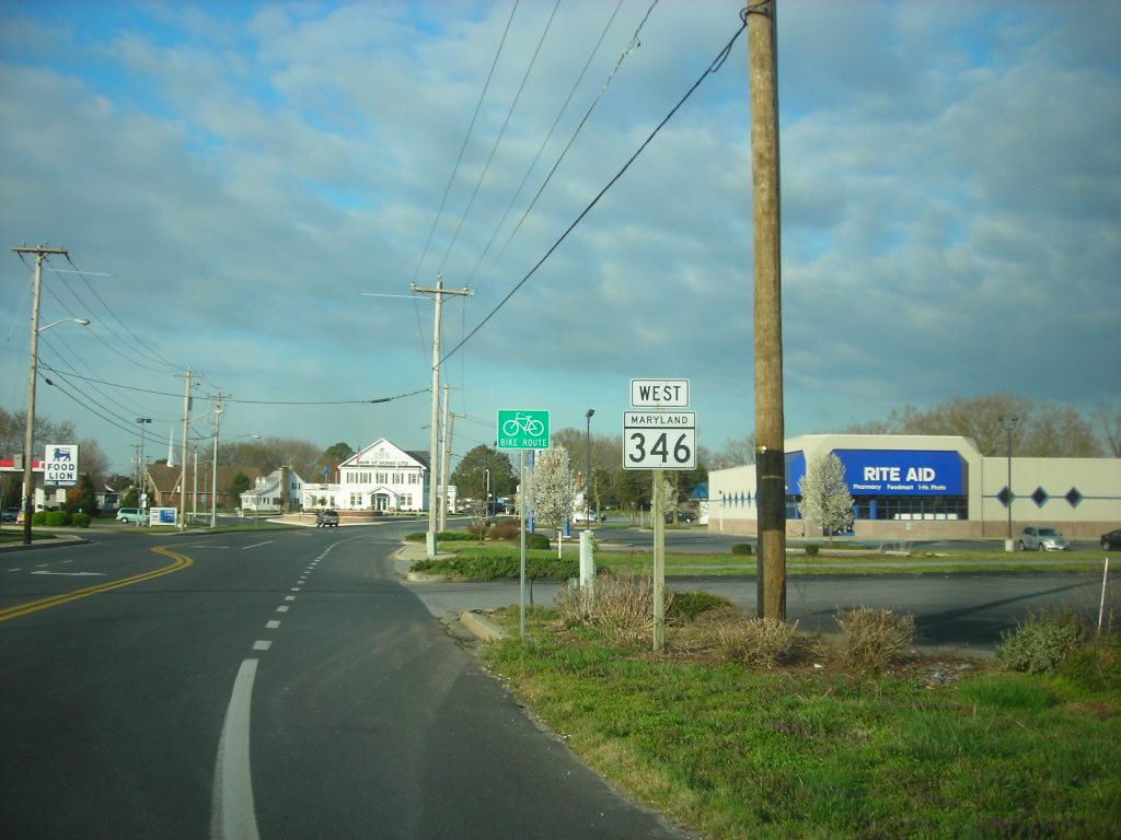 Maryland State Route 346 westbound past U.S. Route 113 in Berlin.